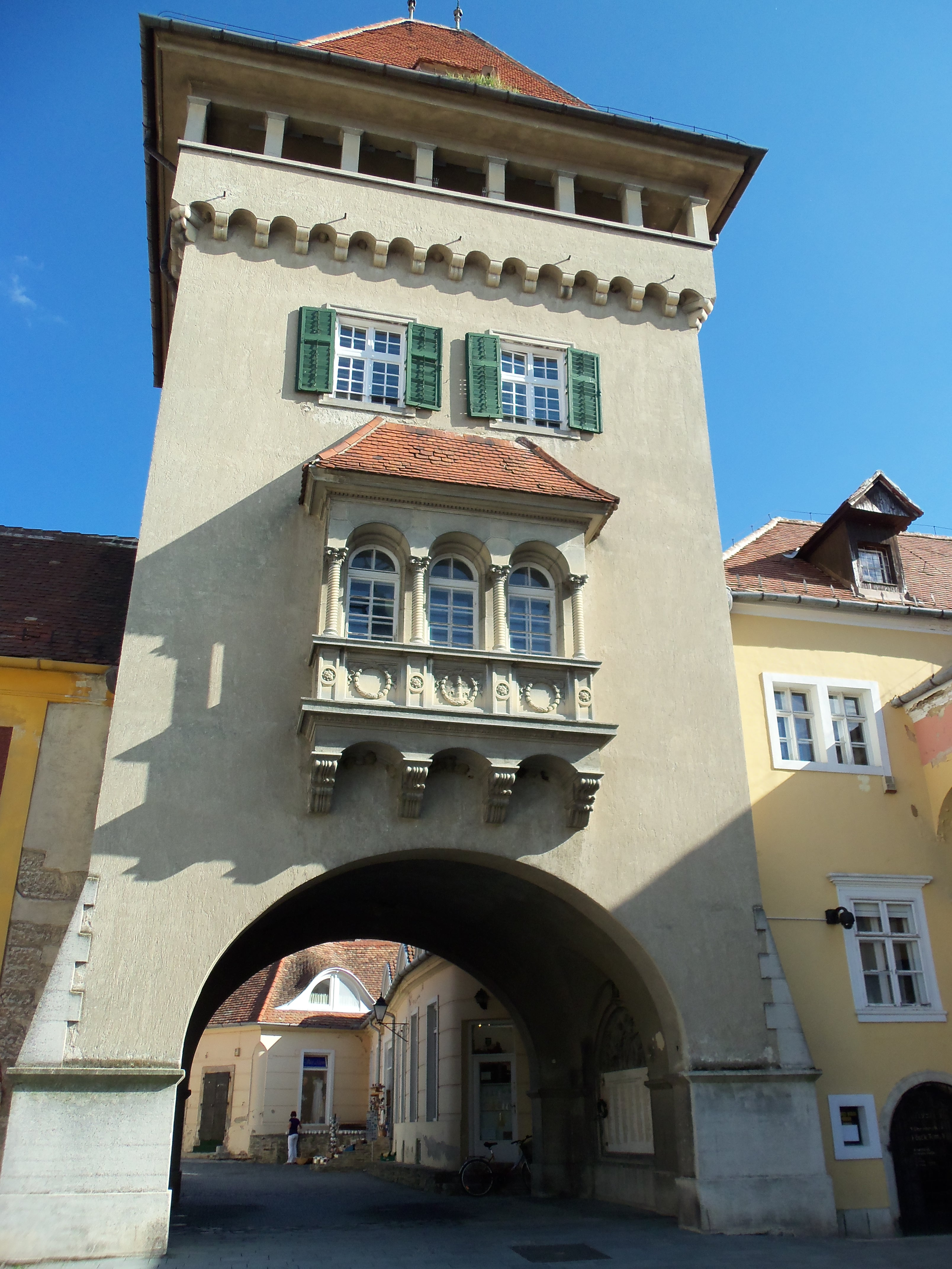 Heroes' Gate, Jurisics square, Kőszeg, Hungary